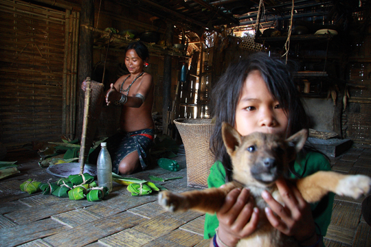 Mro/Mru people